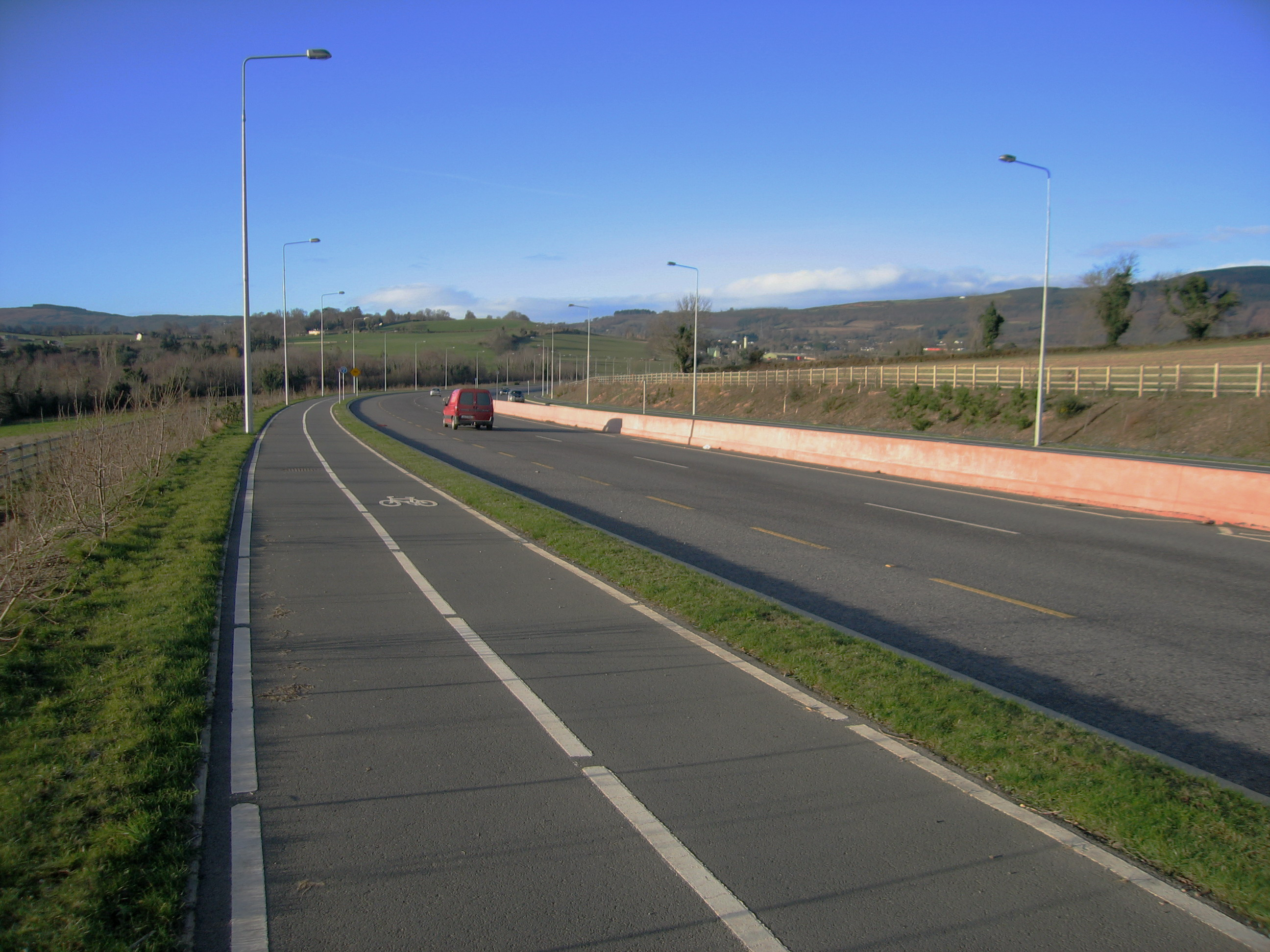 R774 looking west